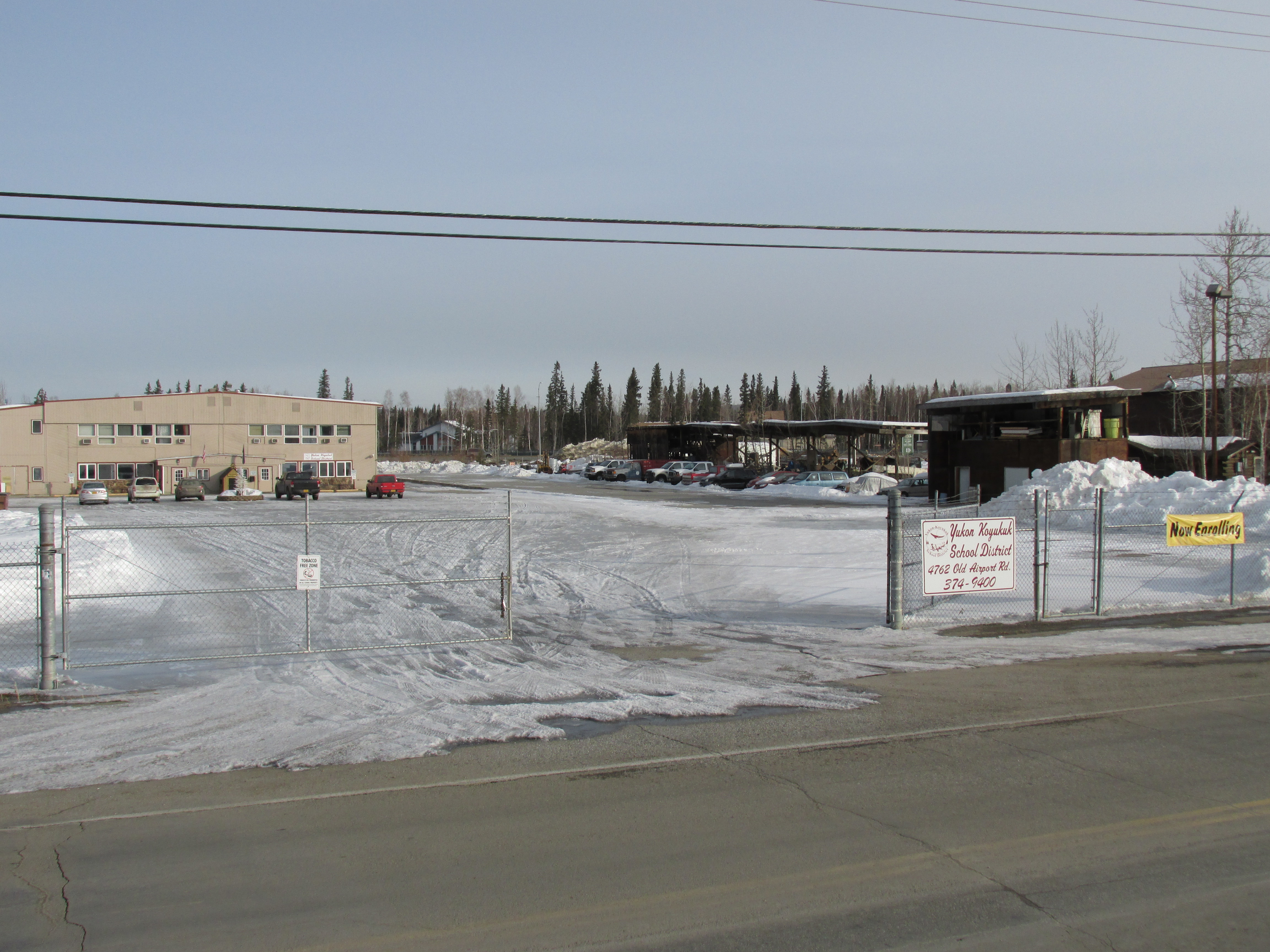 Offices of the Yukon-Koyukuk School District, just outside of Fairbanks, Alaska.